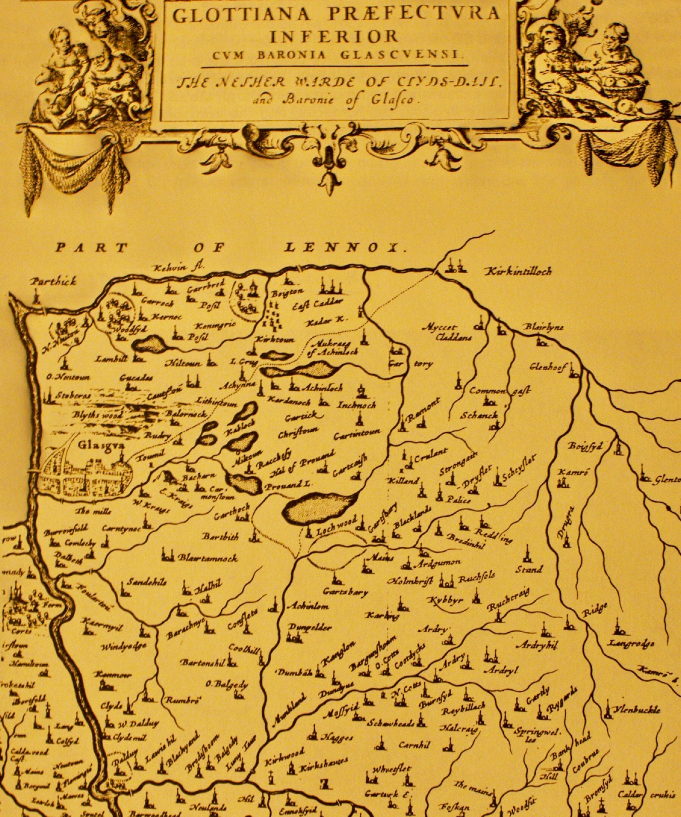 pont's map circa 1700's showing area of coatbridge and Glasgow. author is deader than disco